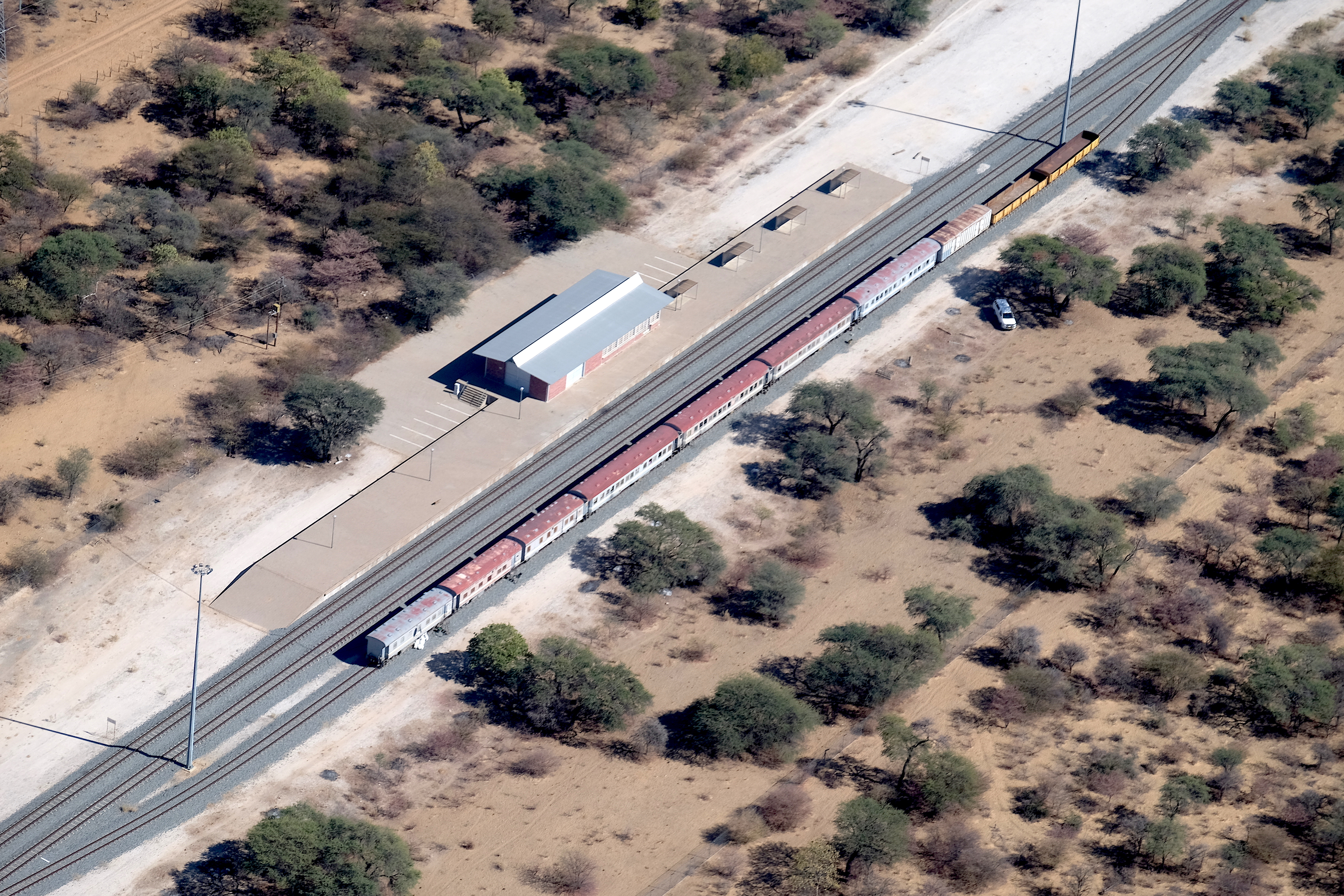 Railway station Oshivelo (2019)